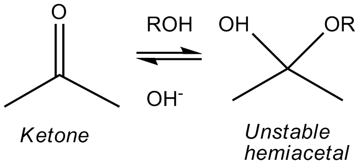 This illustrates a Nucleophilic substitution reaction drawn shorthand.